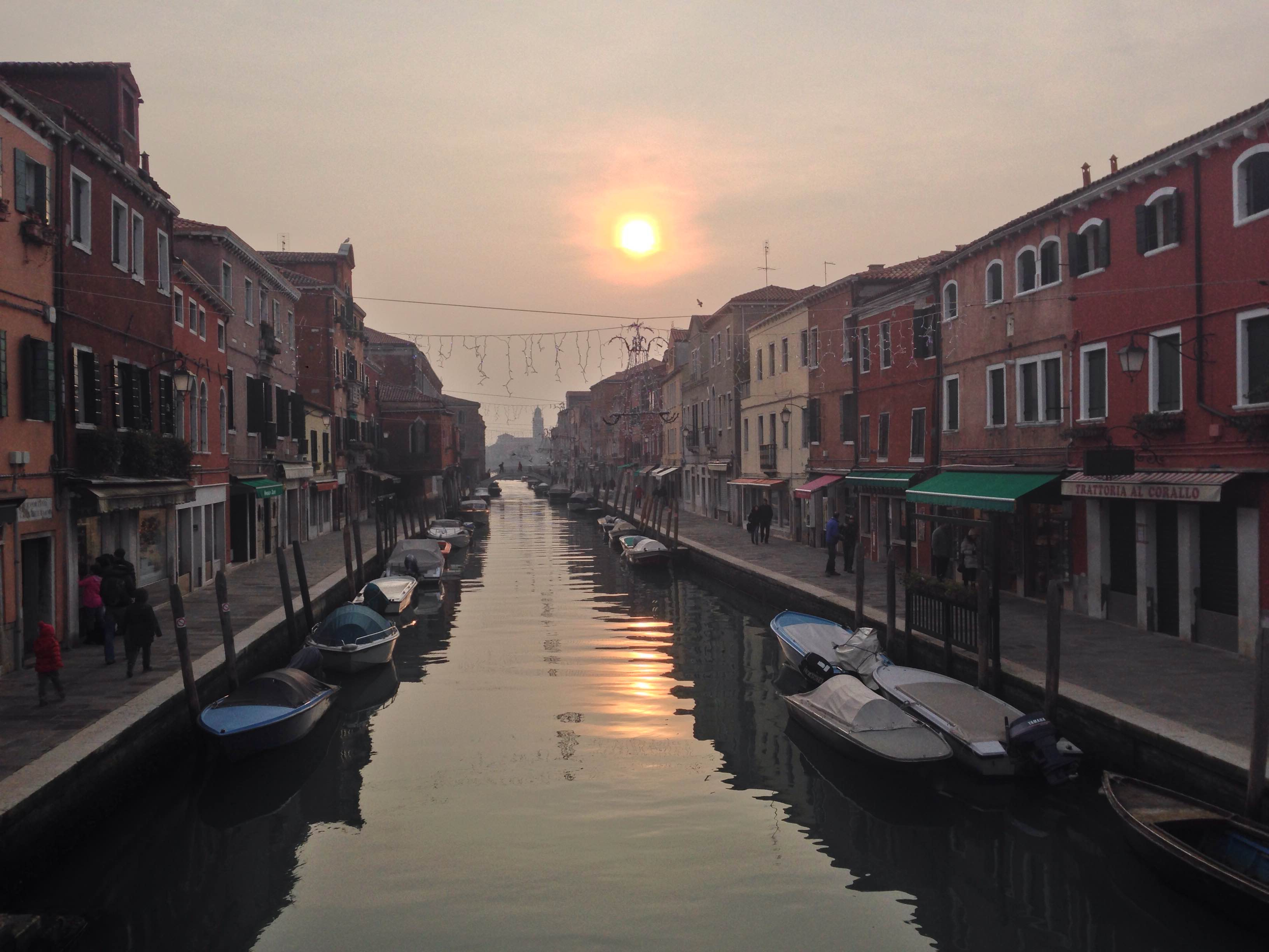 The Rio dei Vetrai